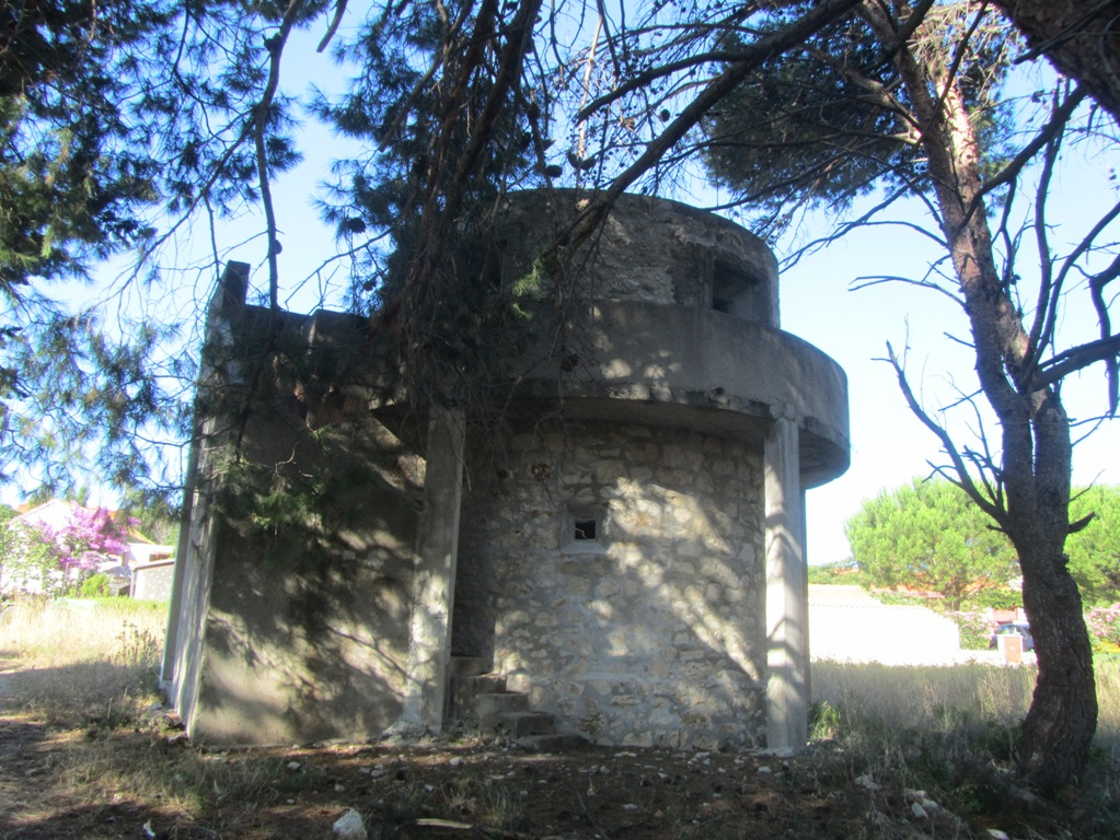 guardhouse of ww2 italian concetration camp